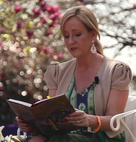 Author J.K. Rowling reads Harry Potter and the Sorcerer's Stone during the Easter Egg Roll on the White House South Lawn. Rowling read an excerpt focusing on Harry buying his wand from Ollivander's. Sc